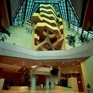 The view of the foyer when entering Gasunie building